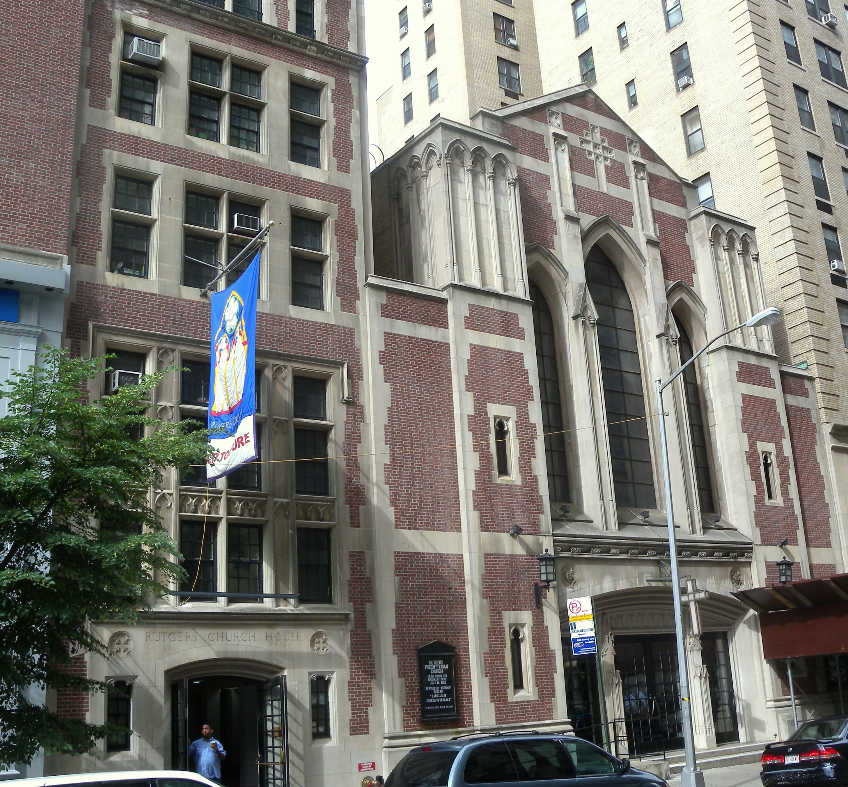 Looking southwest at church house (left) and Rutgers Presbyterian Church, owner of File:Rutgers Building 2095 Bwy jeh.jpg around the corner on Broadway.